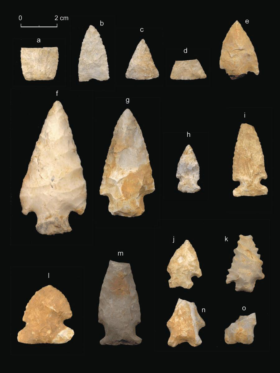 Projectile Points found in the Indiana Dunes (Archaic Time period)